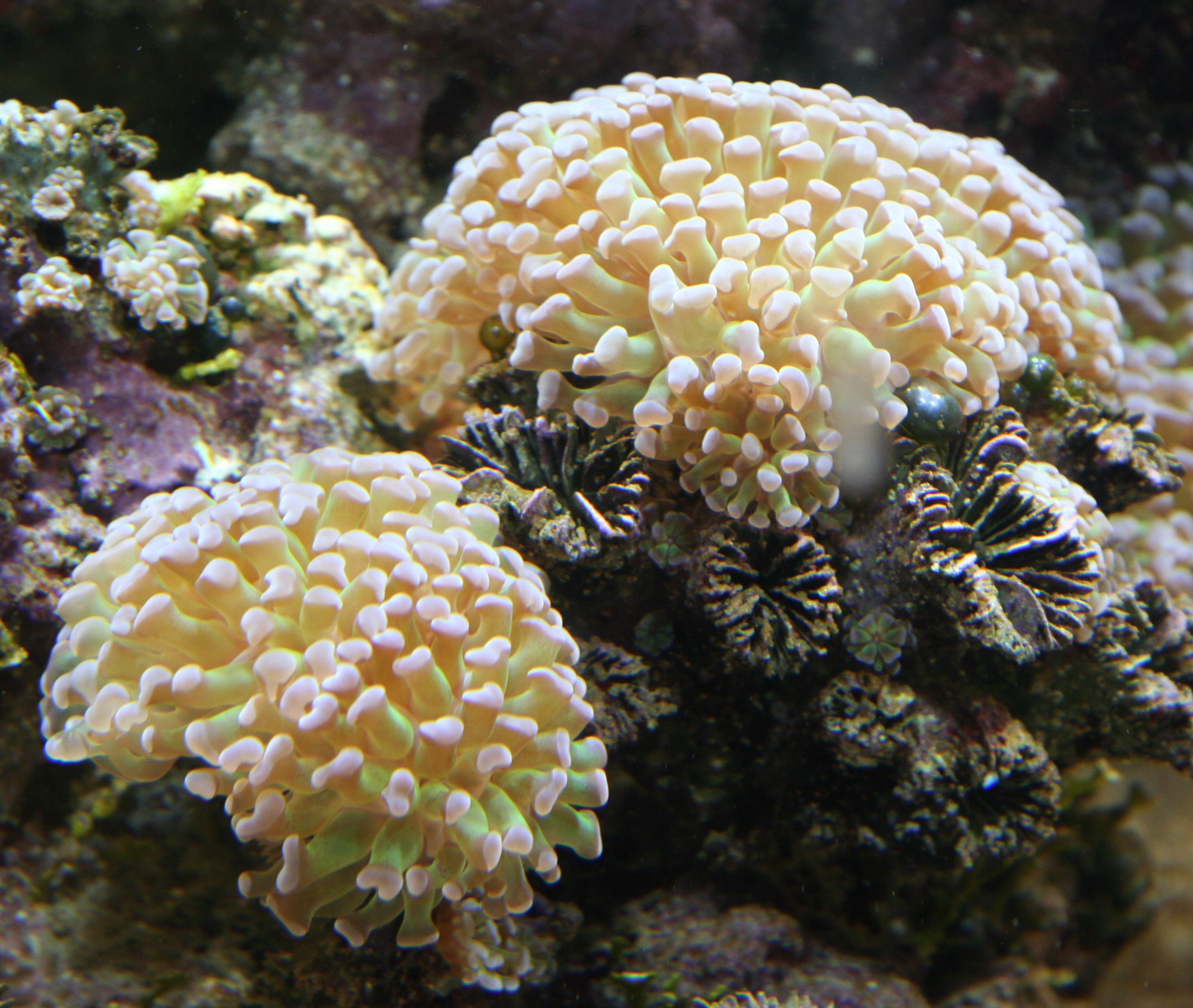 Euphyllia sp. coral shouwing both living polypes and bare calc structures